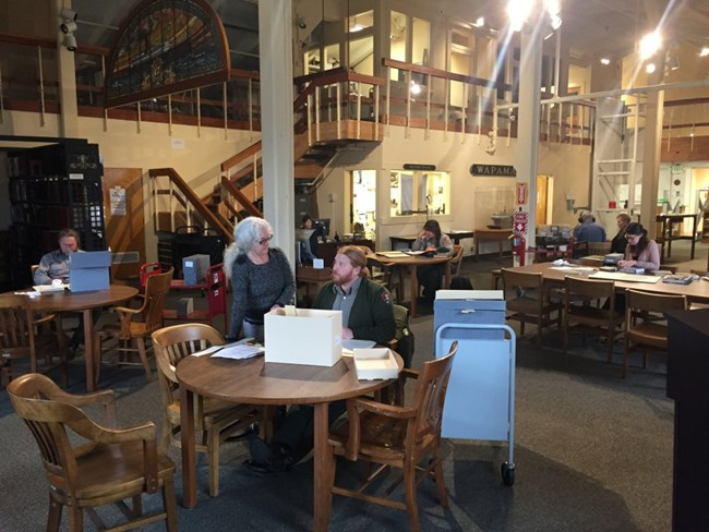 View of the reading room in the Maritime Research Center showing researchers, NPS uniformed staff as well as visitors, at tables consulting archives, books, and audio materials, Reference Librarian Gina Bardi at the Reference Desk in the background.